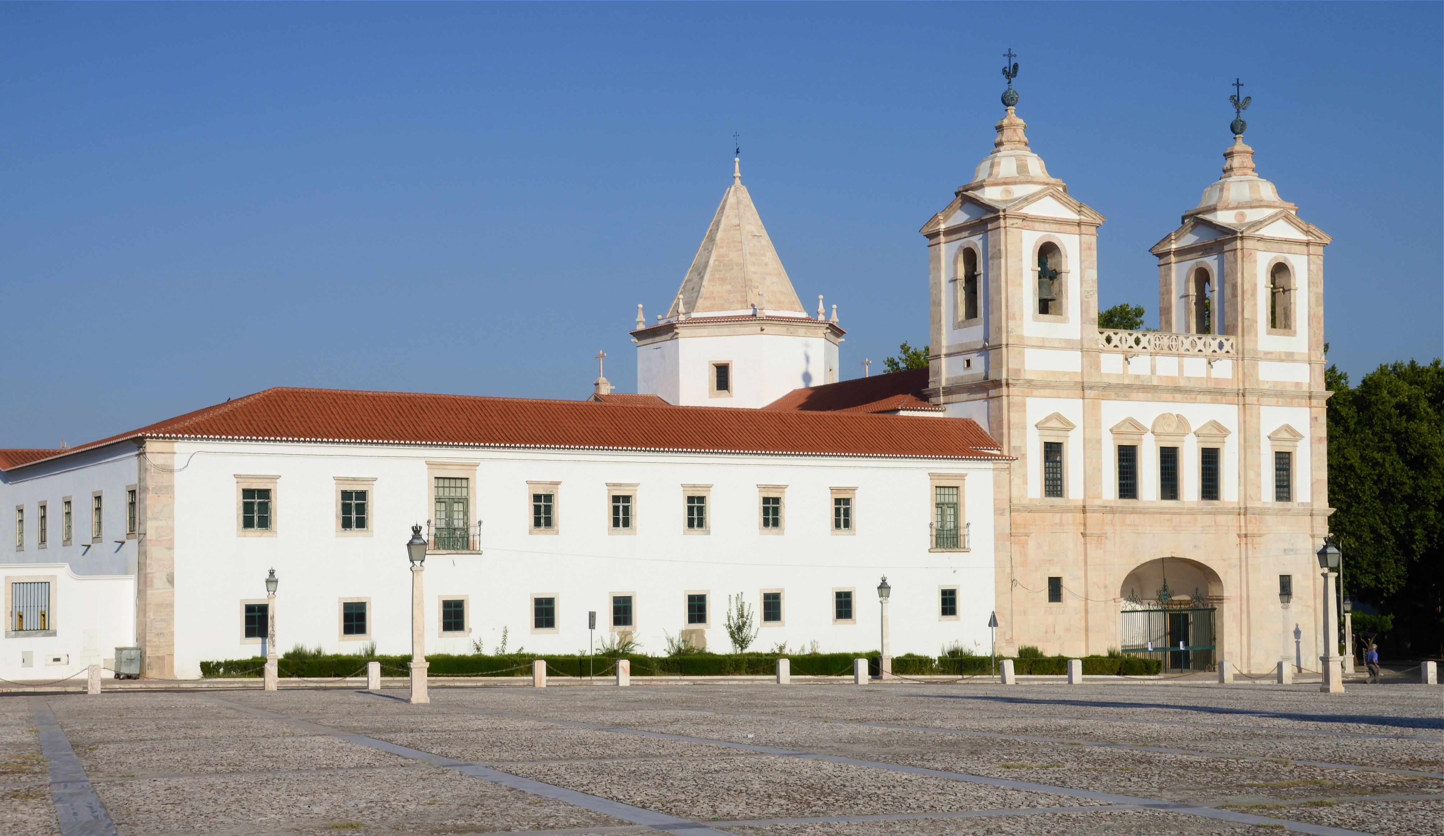 The Monastery of St Augustin, Vila Viçosa, Portugal